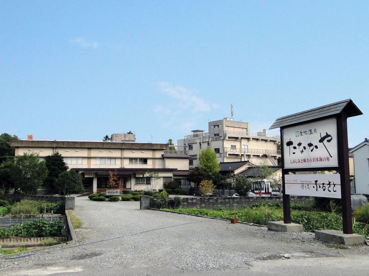 Ikuji Onsen Tanakaya in Kurobe, Toyama, Japan